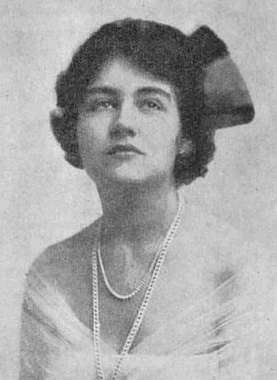 Photo published on the occasion of her marriage, which took place on 6 December, 1922. Published in "The Sketch" illustrated magazine, 13th December 1922, page 28.